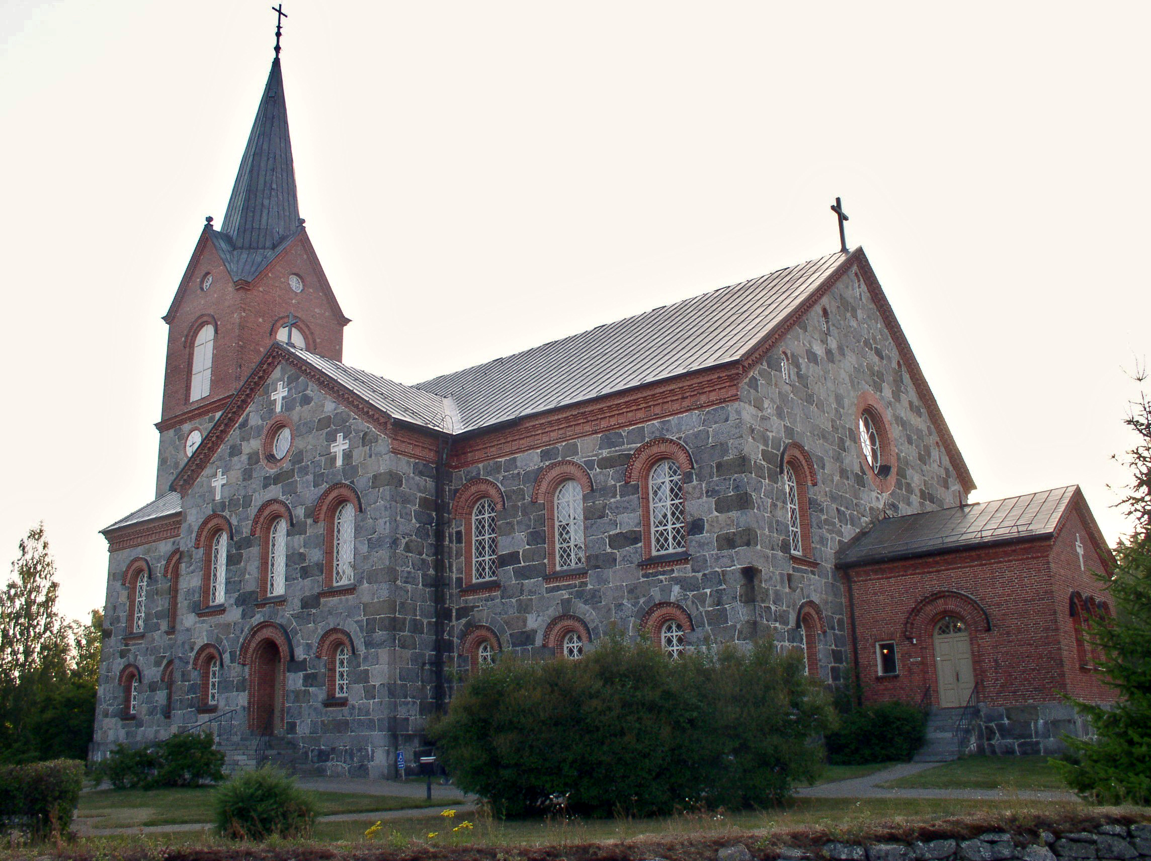 Juva Church in Juva, Finland. Built in 1856–1863. Architects: Carl Albert Edelfelt and Ernst Lohrmann.